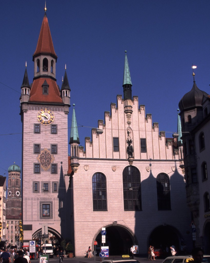 Old Town Hall in Munich, Bavaria